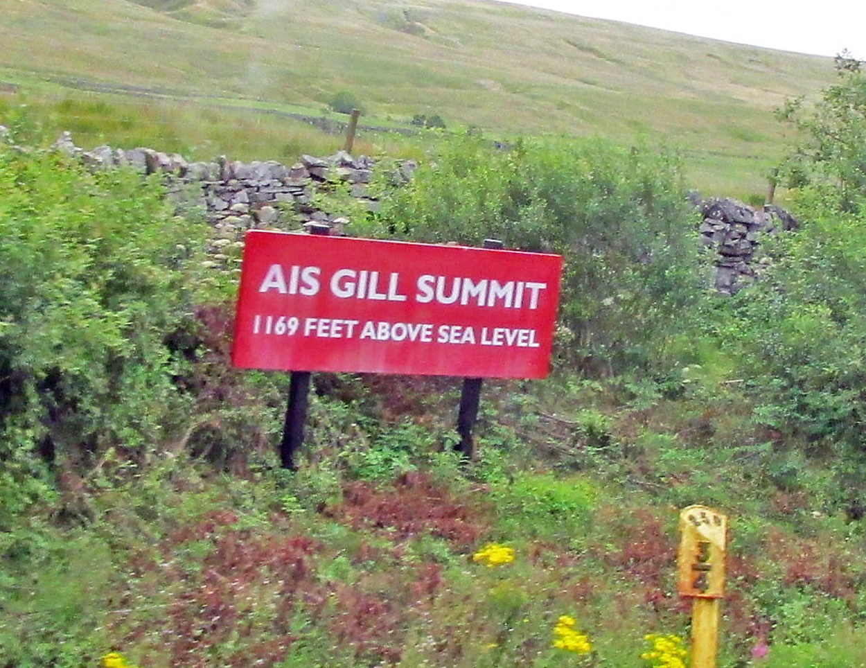 Ais Gill summit marker board in August 2017 taken from a passing northbound express charter steam train